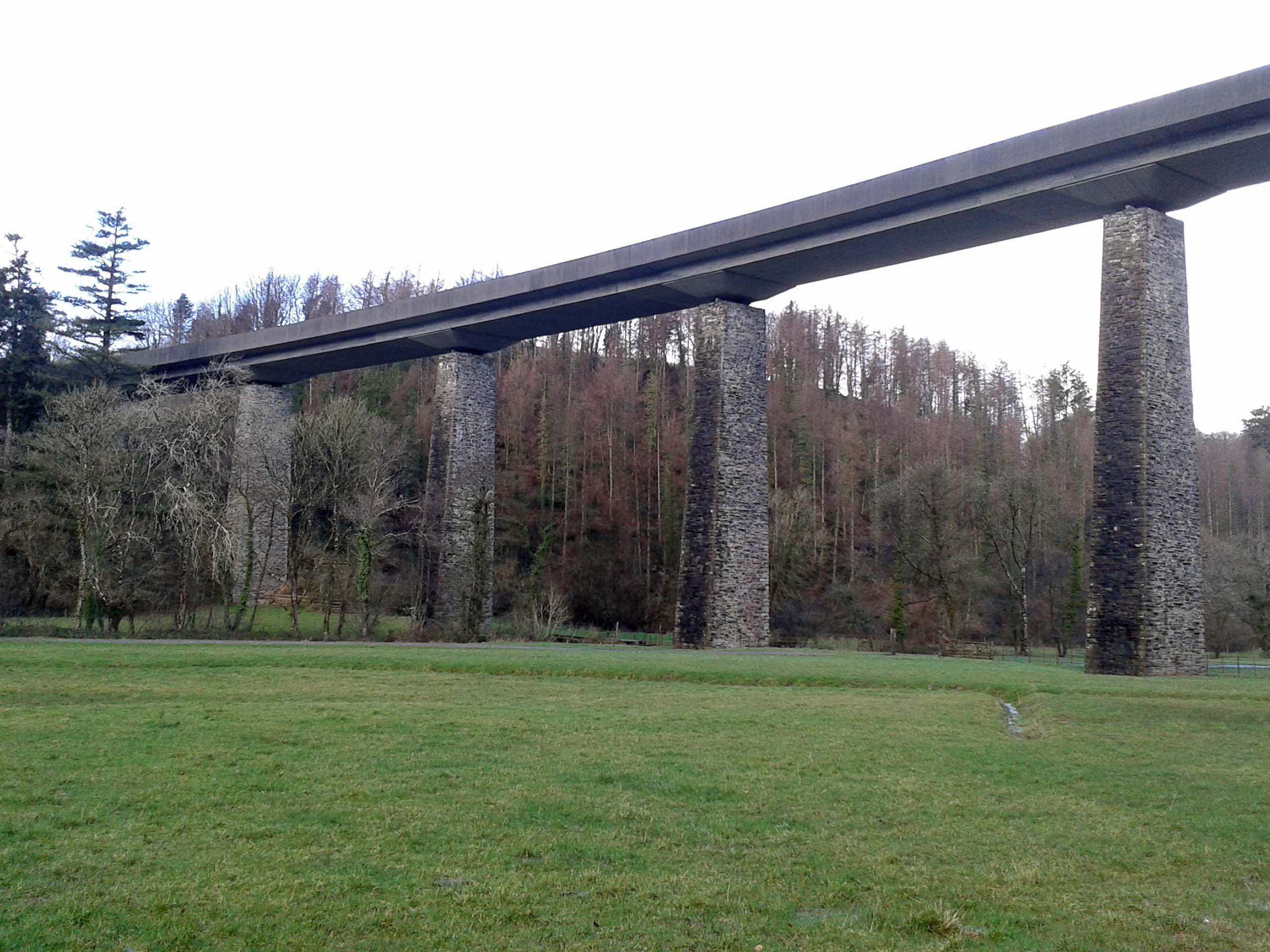 The North Devon Link road (A361) crosses the River Bray. The pillars of the bridge are reused from the Devon and Somerset Railway